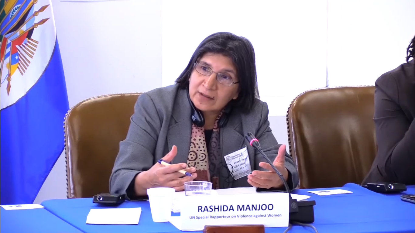 Rashida Manjoo during the round table discussion on gender violence and reparations in Washington, D.C. on 27 October 2014. The experts made a hemispheric overview twenty years after the adoption of the Belém do Pará Convention, sponsored by the Inter-American Commission on Human Rights (IACHR) and by the Inter-American Commission of Women (CIM) of the Organization of American States (OAS).